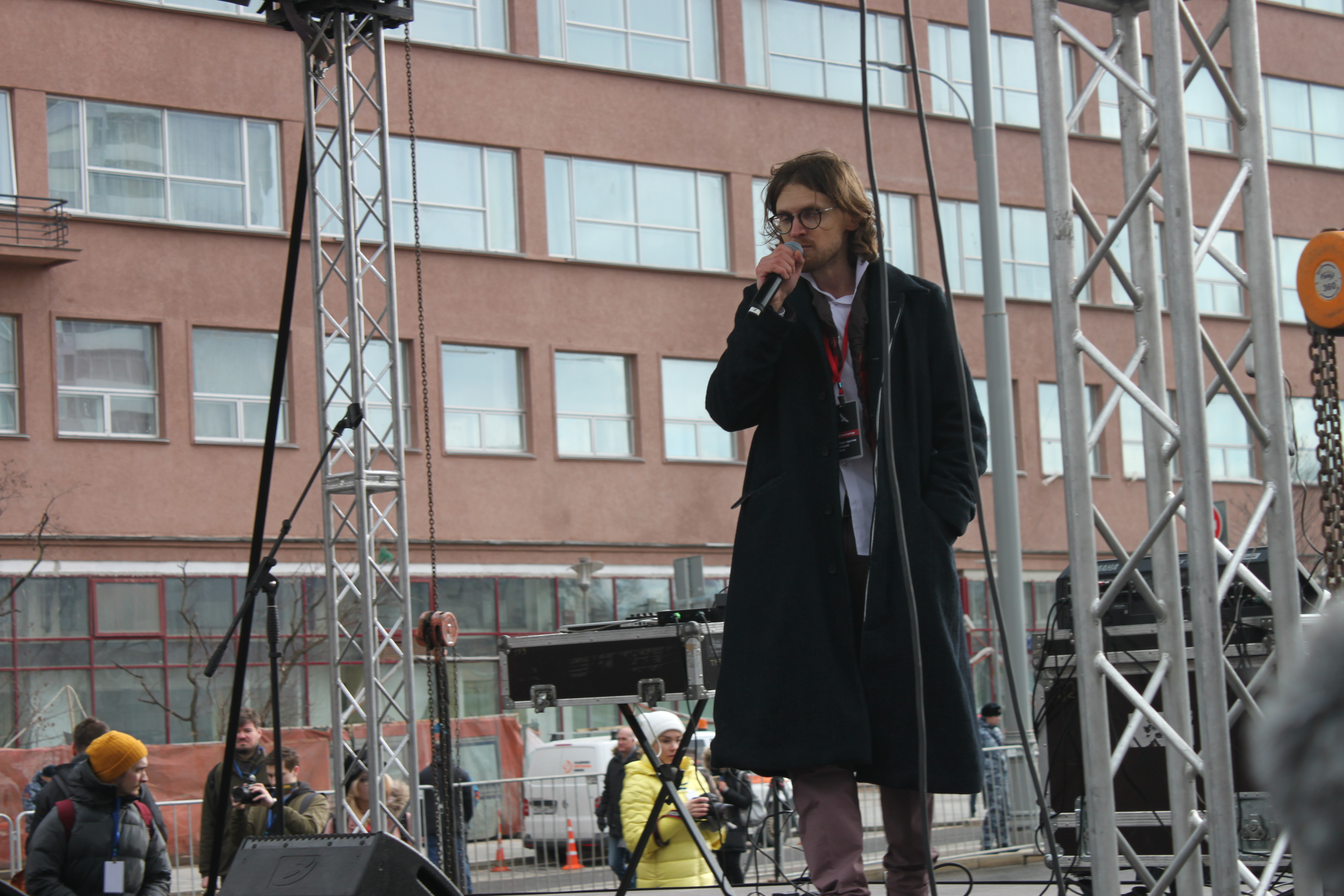 Rally against the isolation of Runet (2019-03-10).